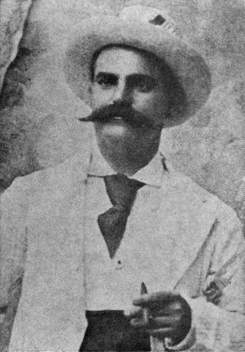 George Lycurgus (Greek: Γεώργιος Λυκοῦργος) (1858–1960) was a Greek American businessman who played an influential role in the early tourist industry of Hawaii.